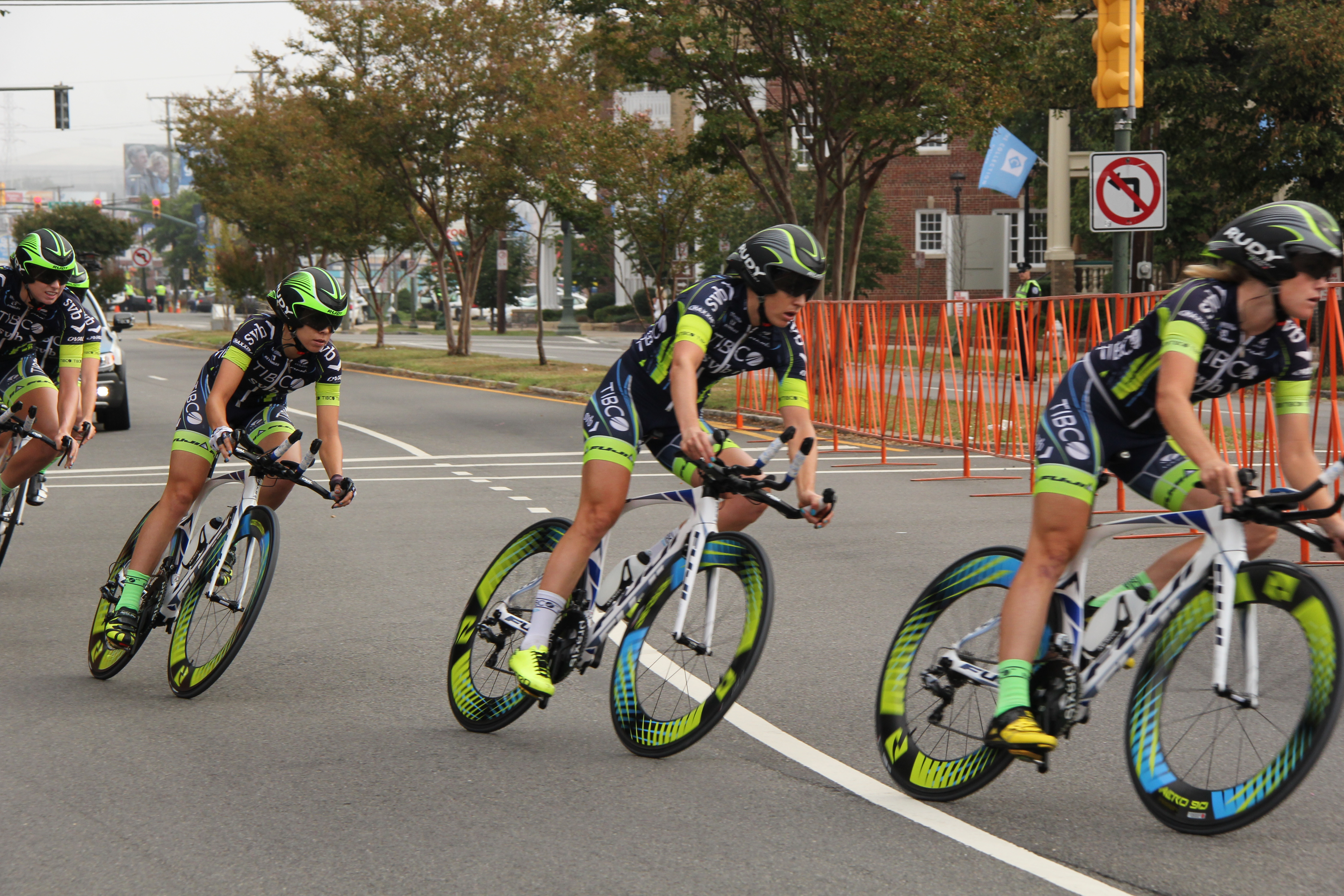 The world has come to Richmond. Welcome! Bienvenidos! Willkommen! 2015 UCI Road World Championships, in Richmond, United States